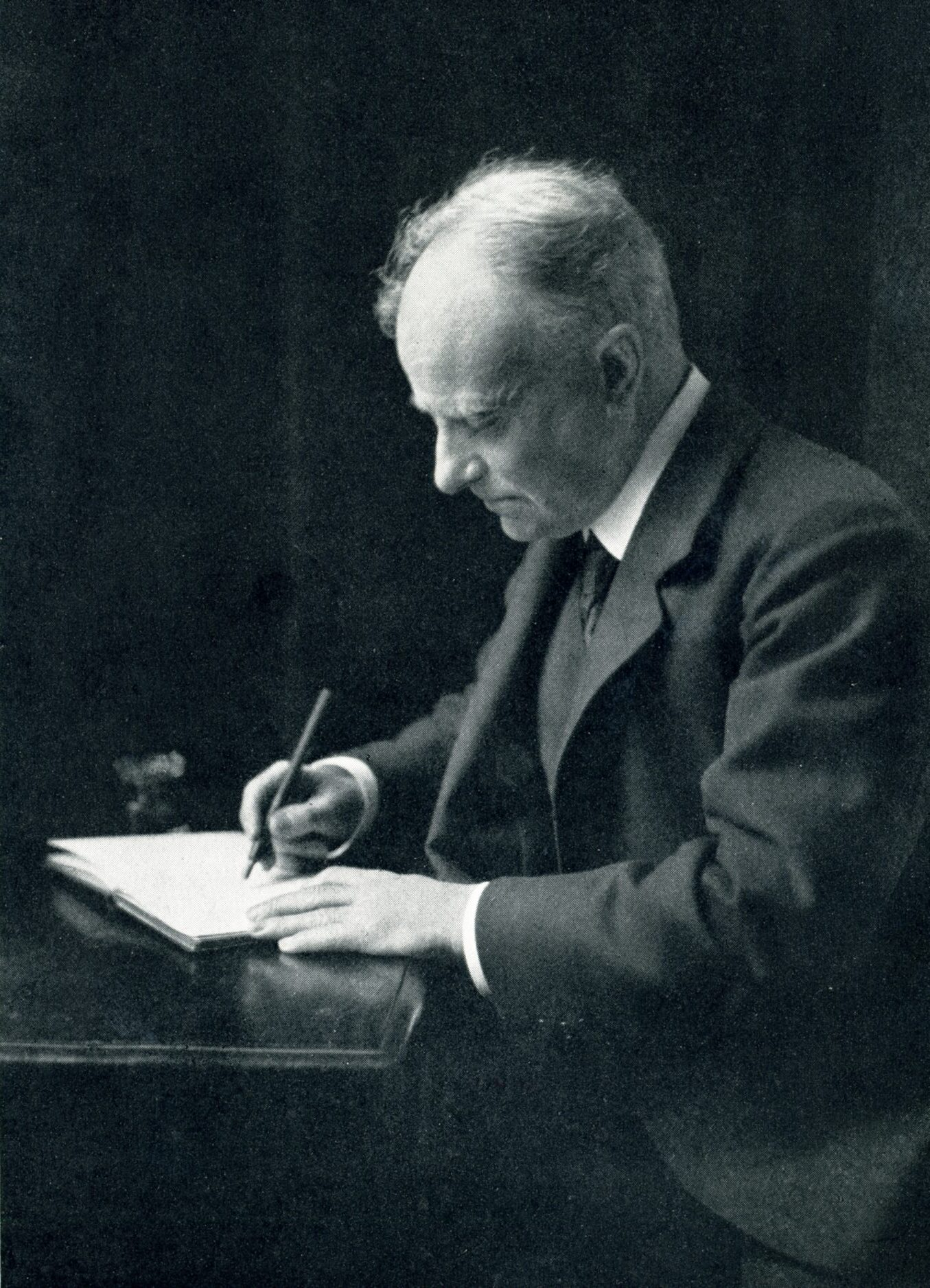 Thomson working at his desk in 1912.